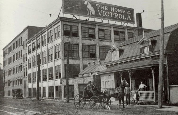 RCA Victor factory, 1001 Lenoir street, Montreal